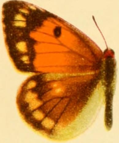 Plate from The Macrolepidoptera of the World. Vol. 1: Colias heos